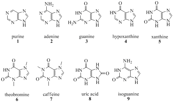 kinds of purine